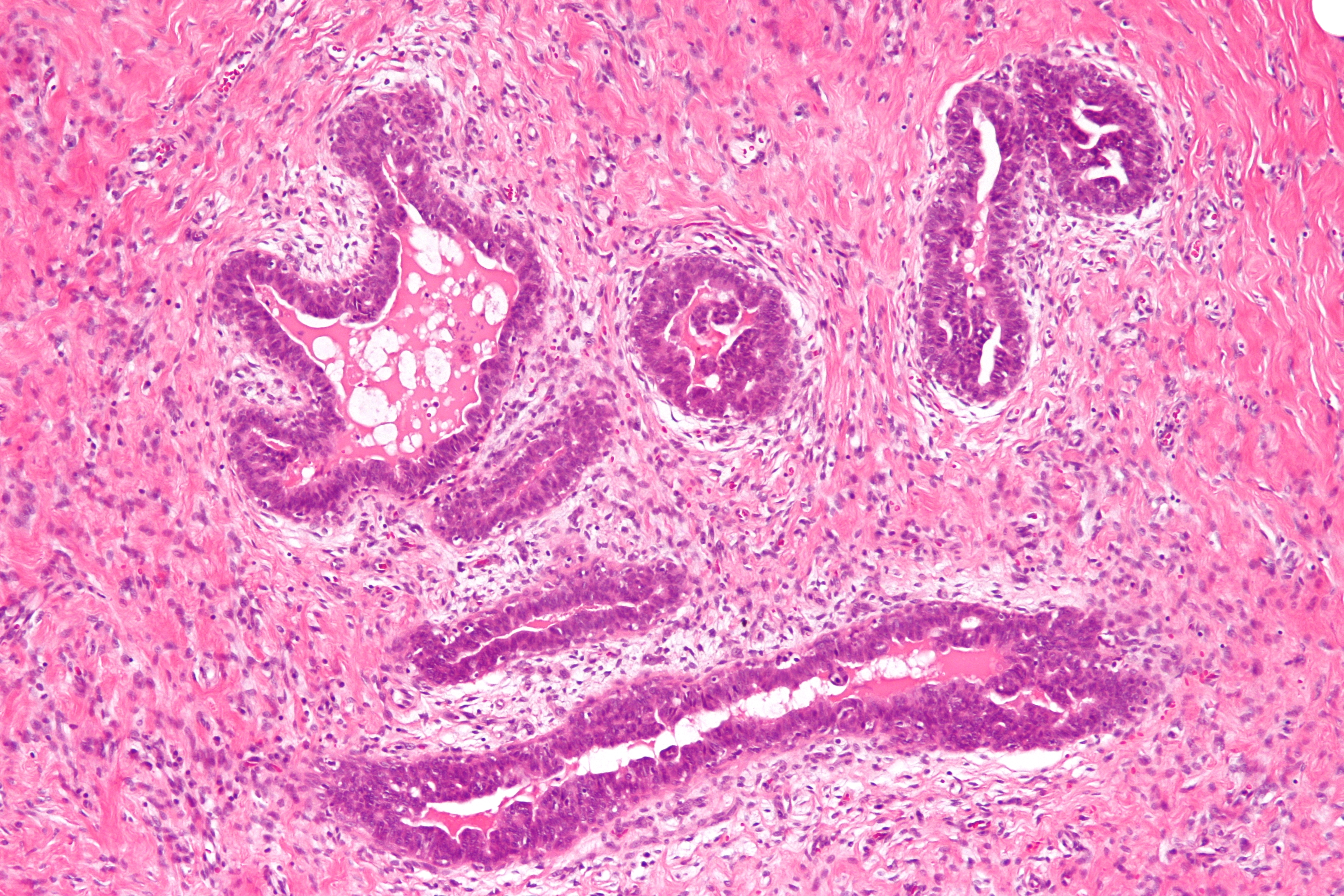 Intermediate magnification micrograph of gynecomastoid hyperplasia, also gynecomastia and gynaecomastia. H&E stain. Histologic changes: Moderate hyperplasia. Budding of cells into the duct lumen. Stromal palor. These changes may be seen in females. Related images Low mag. Intermed. mag. High mag. Very high mag. Low mag. Intermed. mag. High mag. Very high mag.